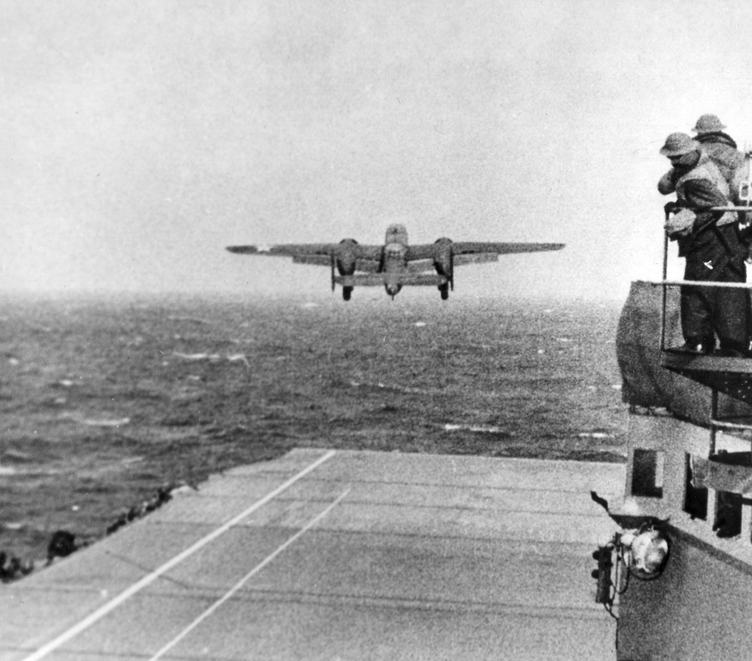 Doolittle Raid. Taken from the deck of the USS Hornet (CV-8), a B-25 bomber makes its way to be part of the first U.S. air raid on Japan. (U.S. Navy photo)